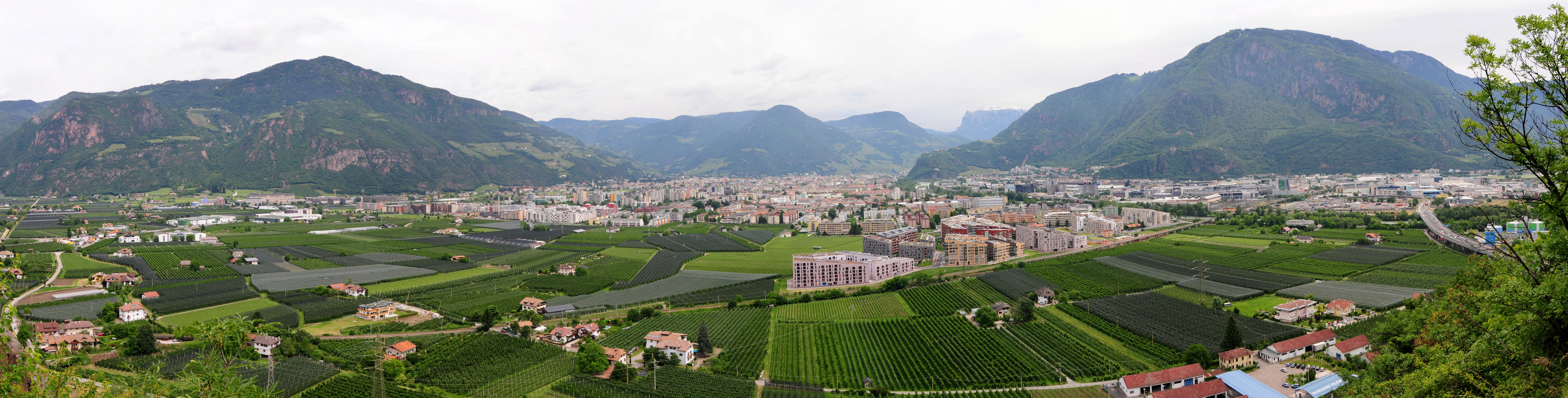 Bozen (Bolzano), view from castle Sigmundskron (Firmian)